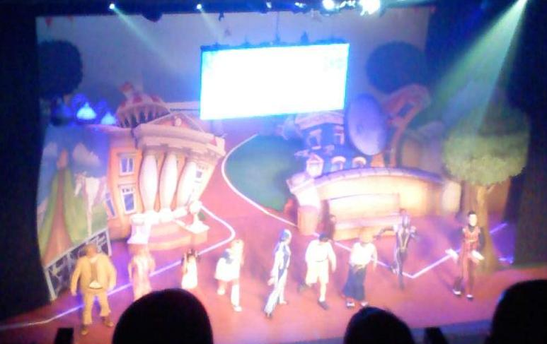 Photo of the LazyTown live show at Birmingham's Alexandra Theatre on February 3 2008, taken by me.